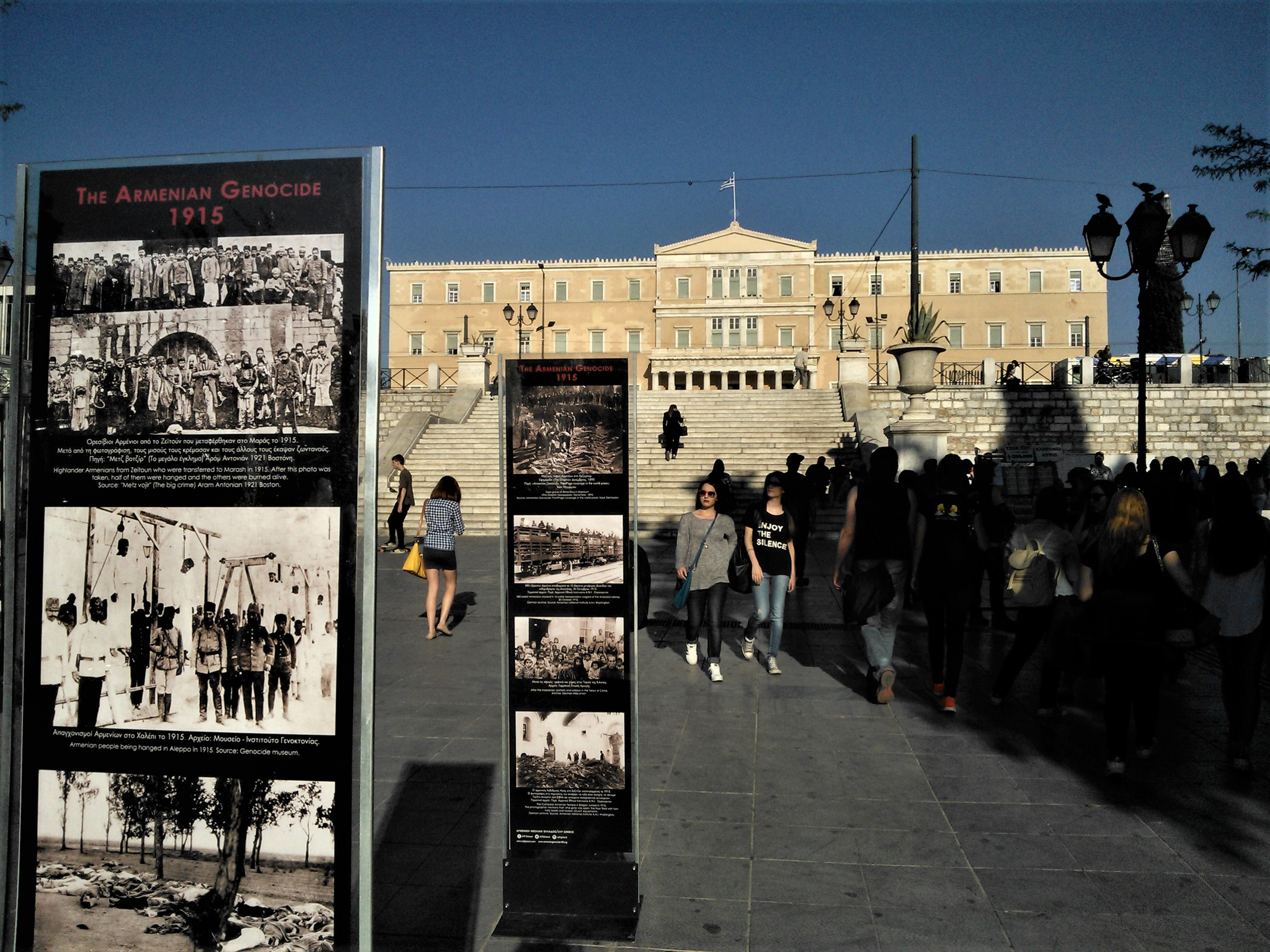 Photos of the 1915 Armenian Genocide placed at Syntagma Square aiming to raise awareness of the issue, 18/04/2016.